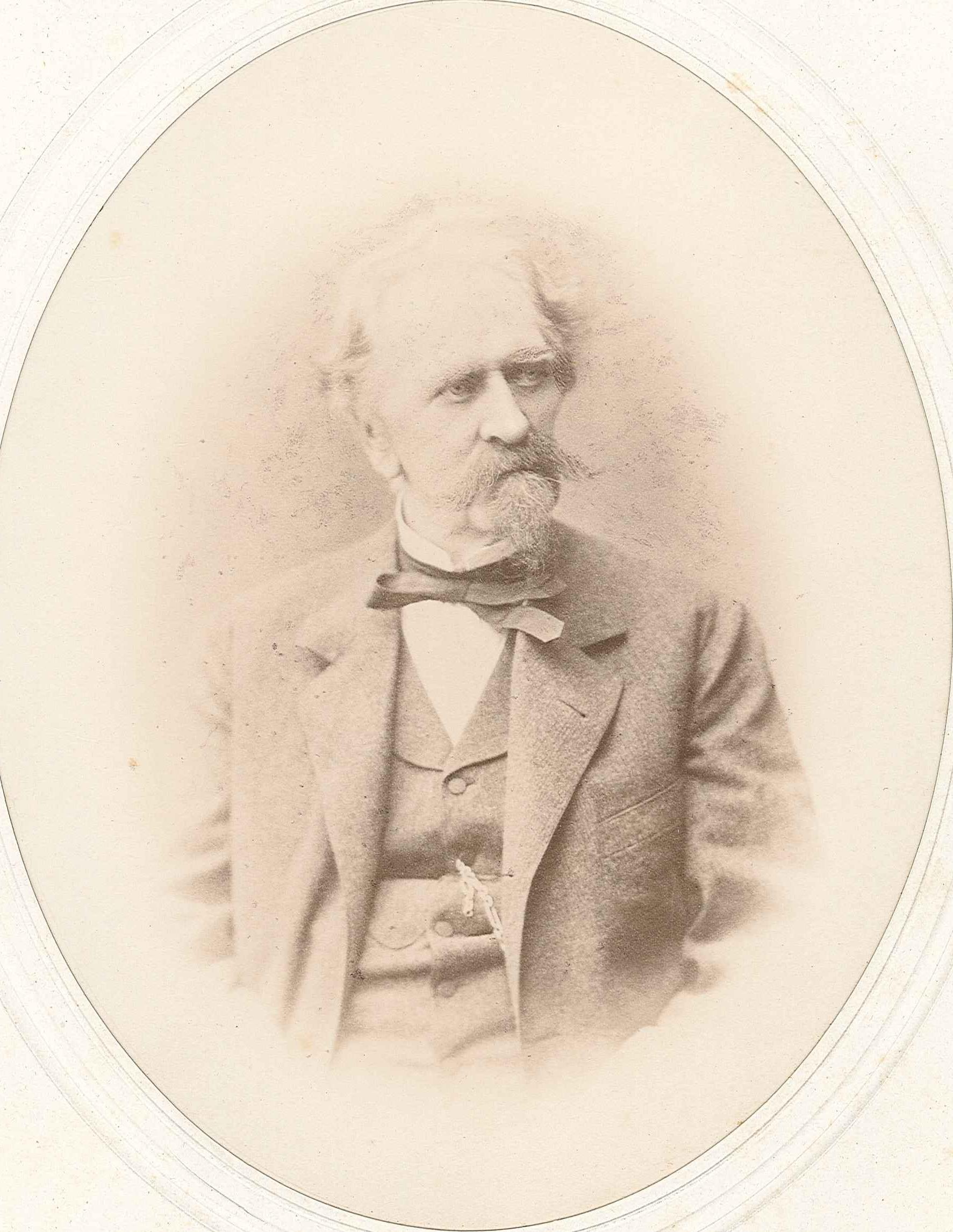 Duke Alexander Friedrich Wilhelm of Wuerttemberg (1804-1881)